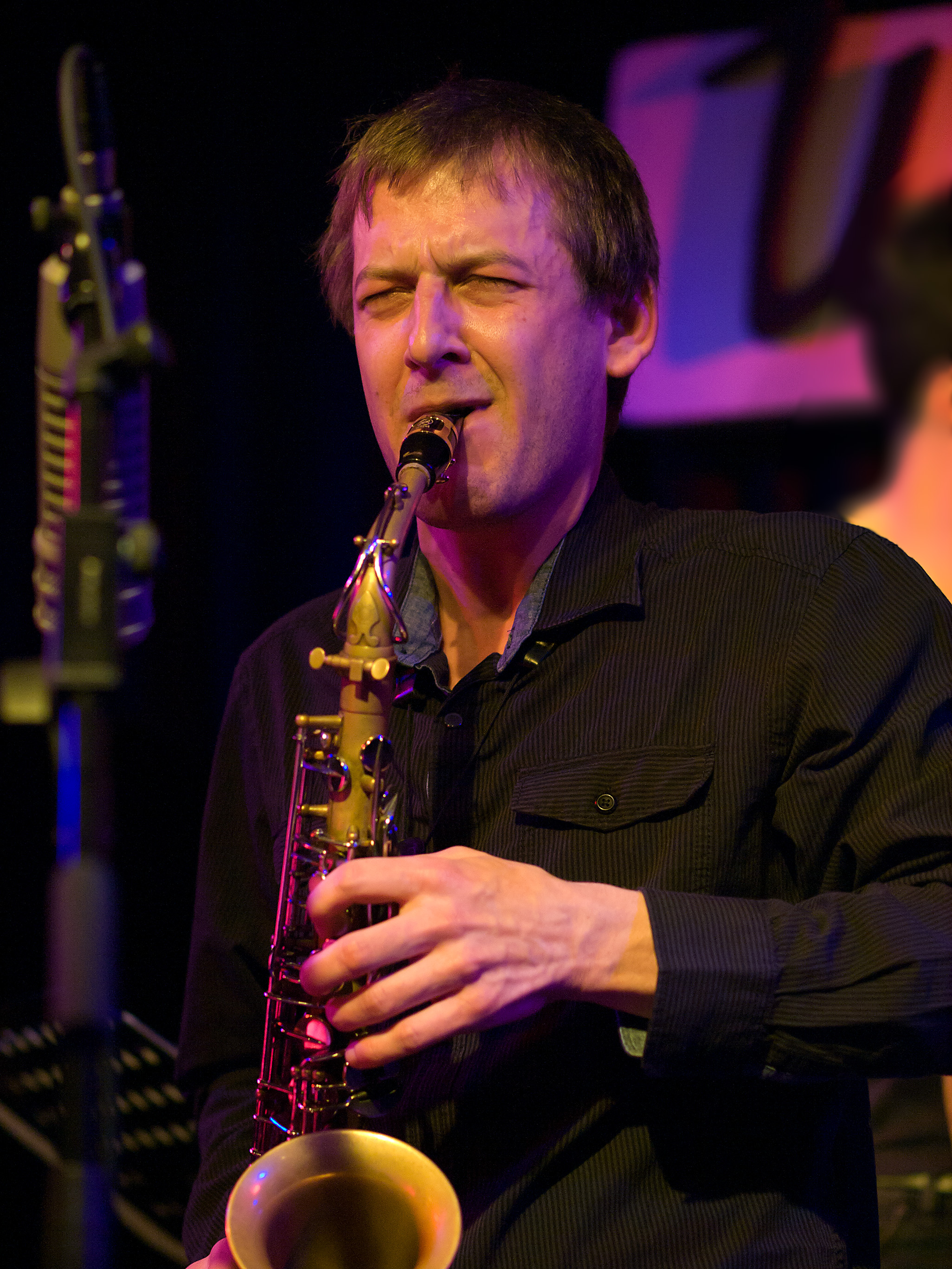 Malte Dürrschnabel, Jazz saxophonist; Picture taken in Jazz Club Unterfahrt, Munich/Bavaria